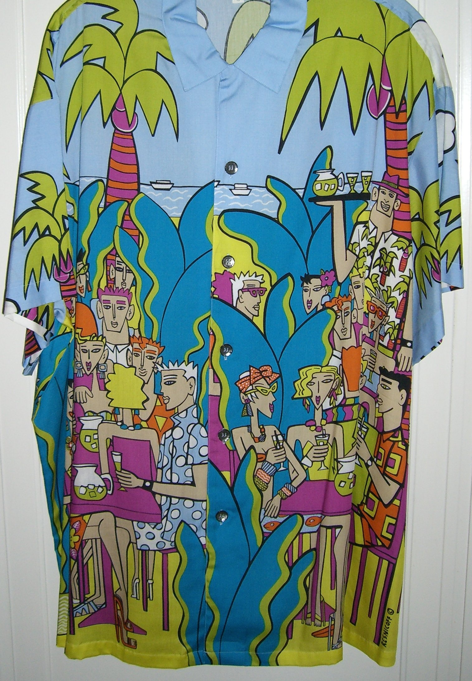 Subject of article, a fashion illustrator, produced clothing for Esprit shortly before his death, as described in the Wikipedia article. This image strengthens the article by showing one example of the clothing described therein.